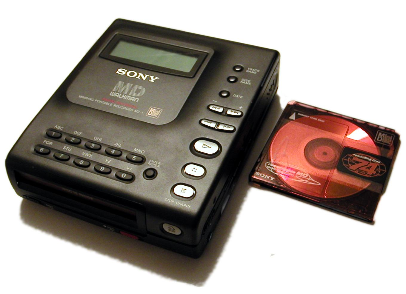 An image of an Sony MZ-1 MiniDisc player and a disc.